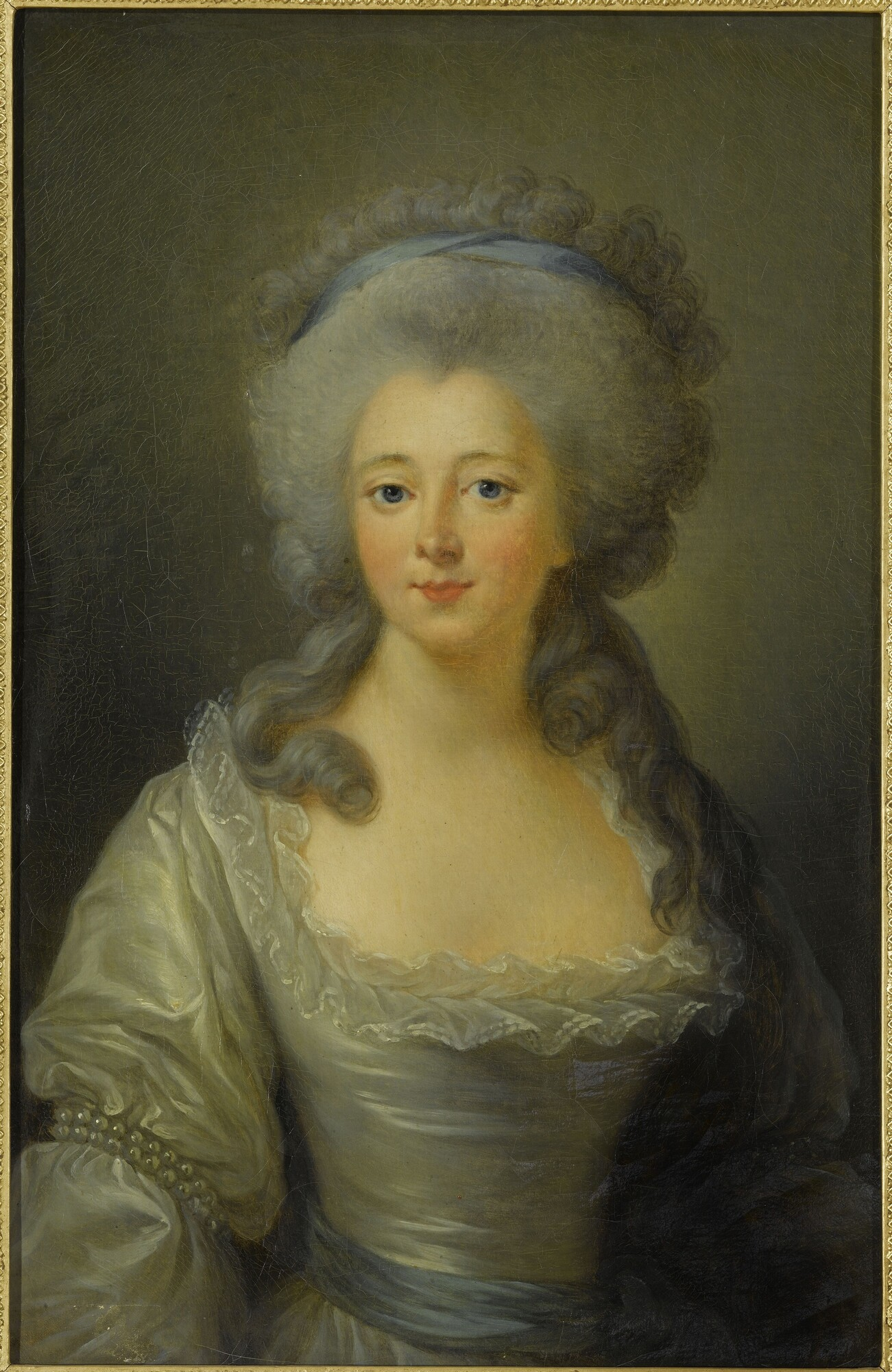 Madame de Montesson